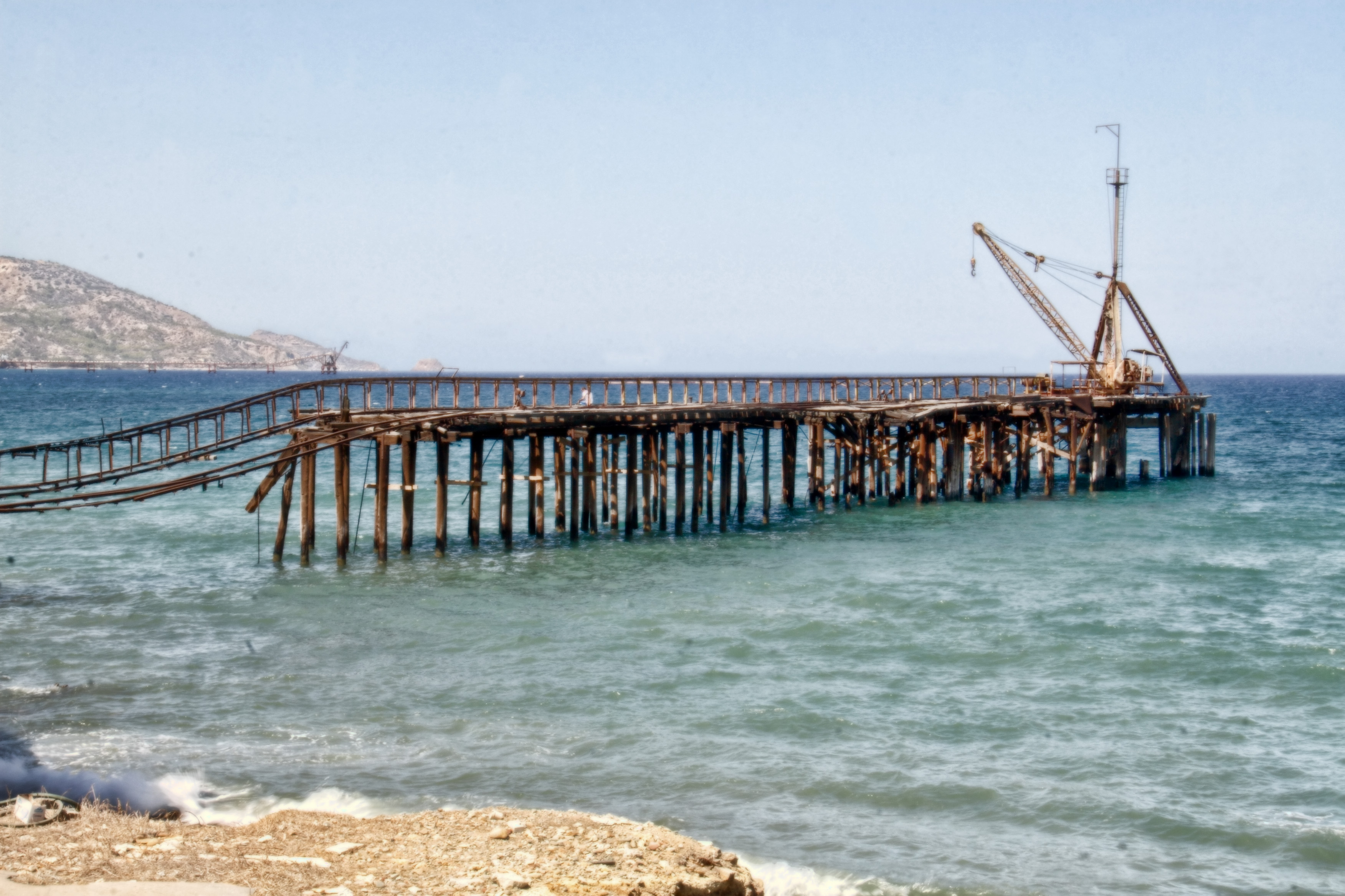 Derelict dock of the Gemikonağı/Karavostasi port in Northern Cyprus